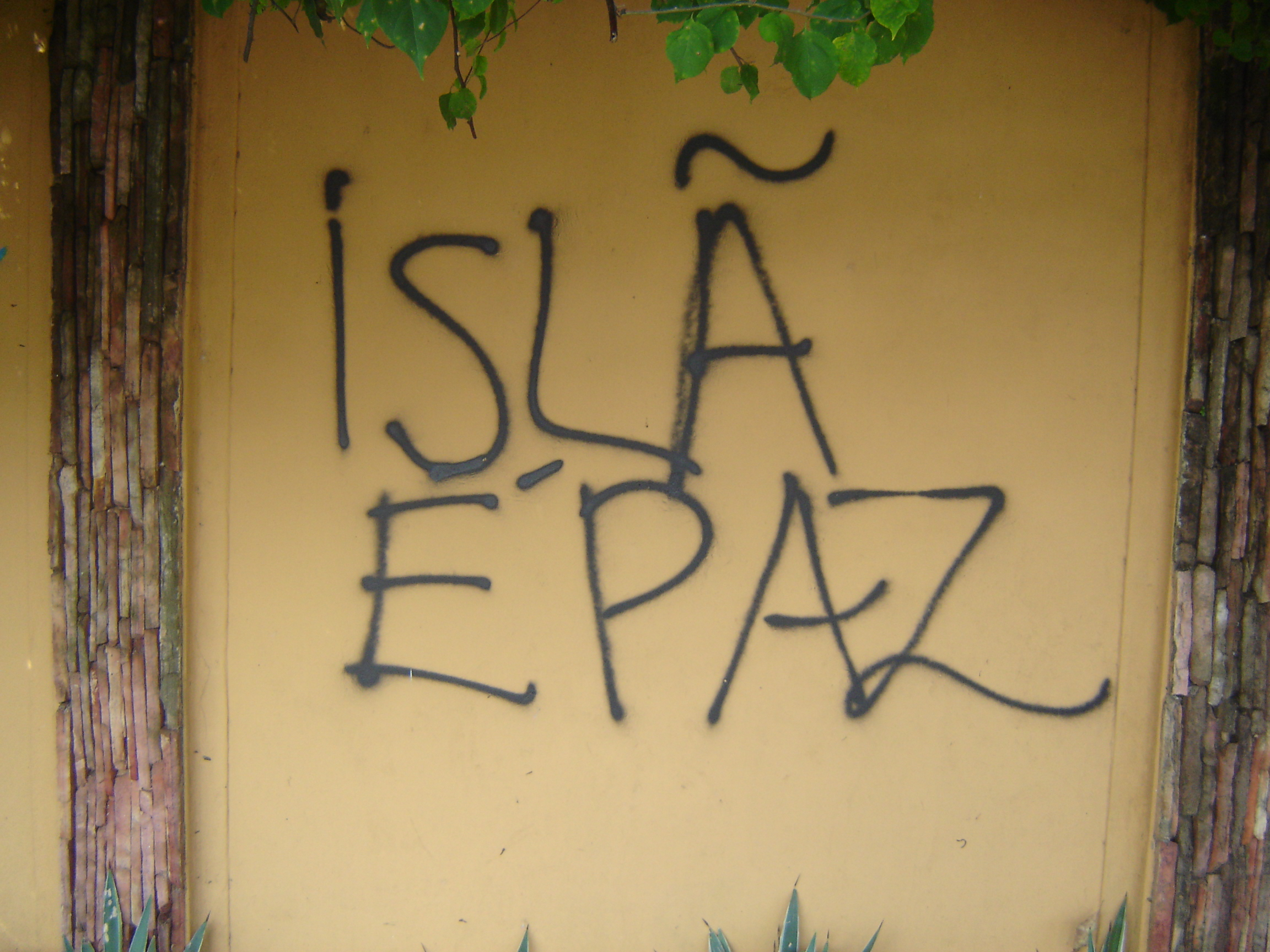 Wall in Goiânia, Goiás, Brazil with the following writing: "Islam is peace".